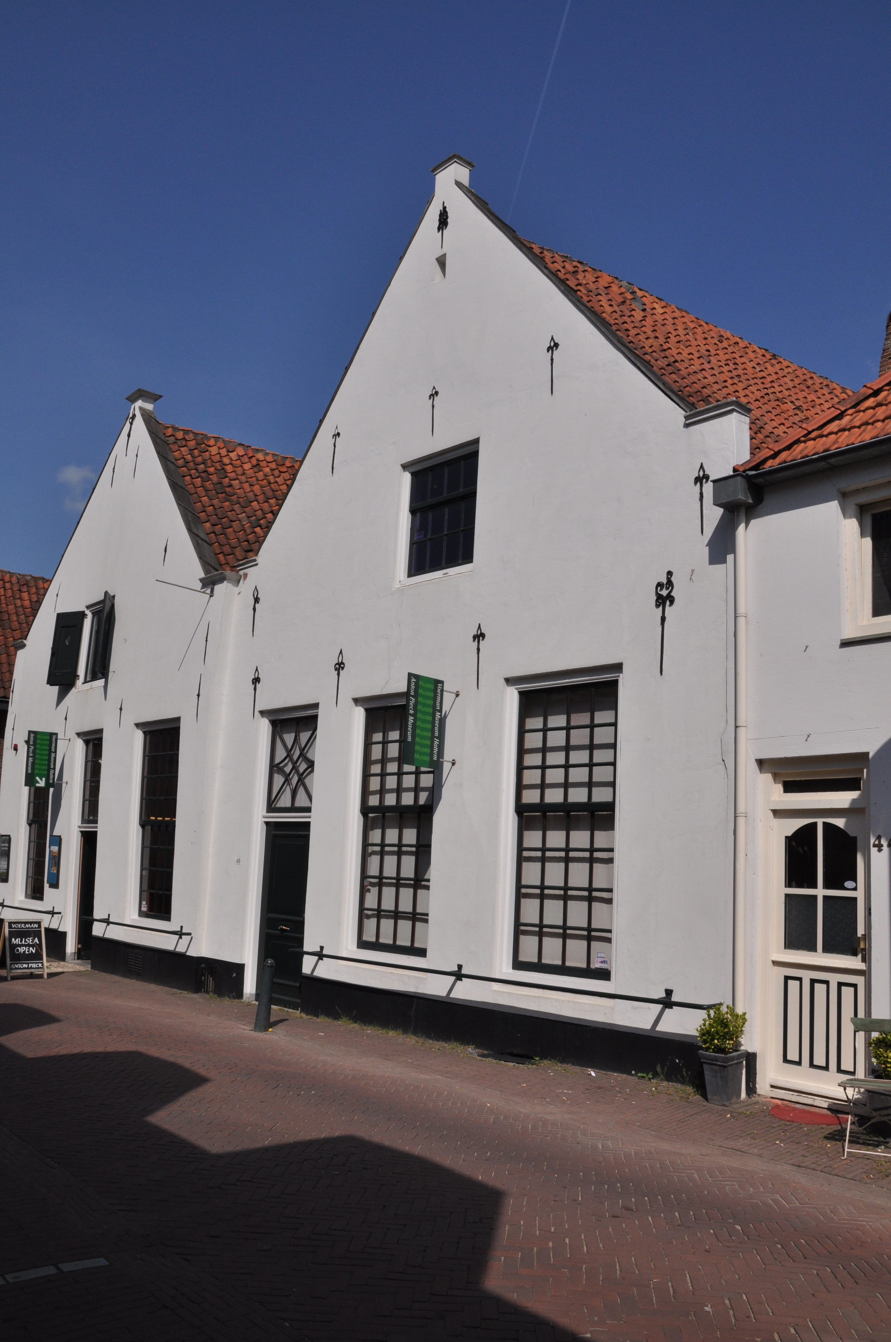 Hattem, part of Voermanmuseum 17th century